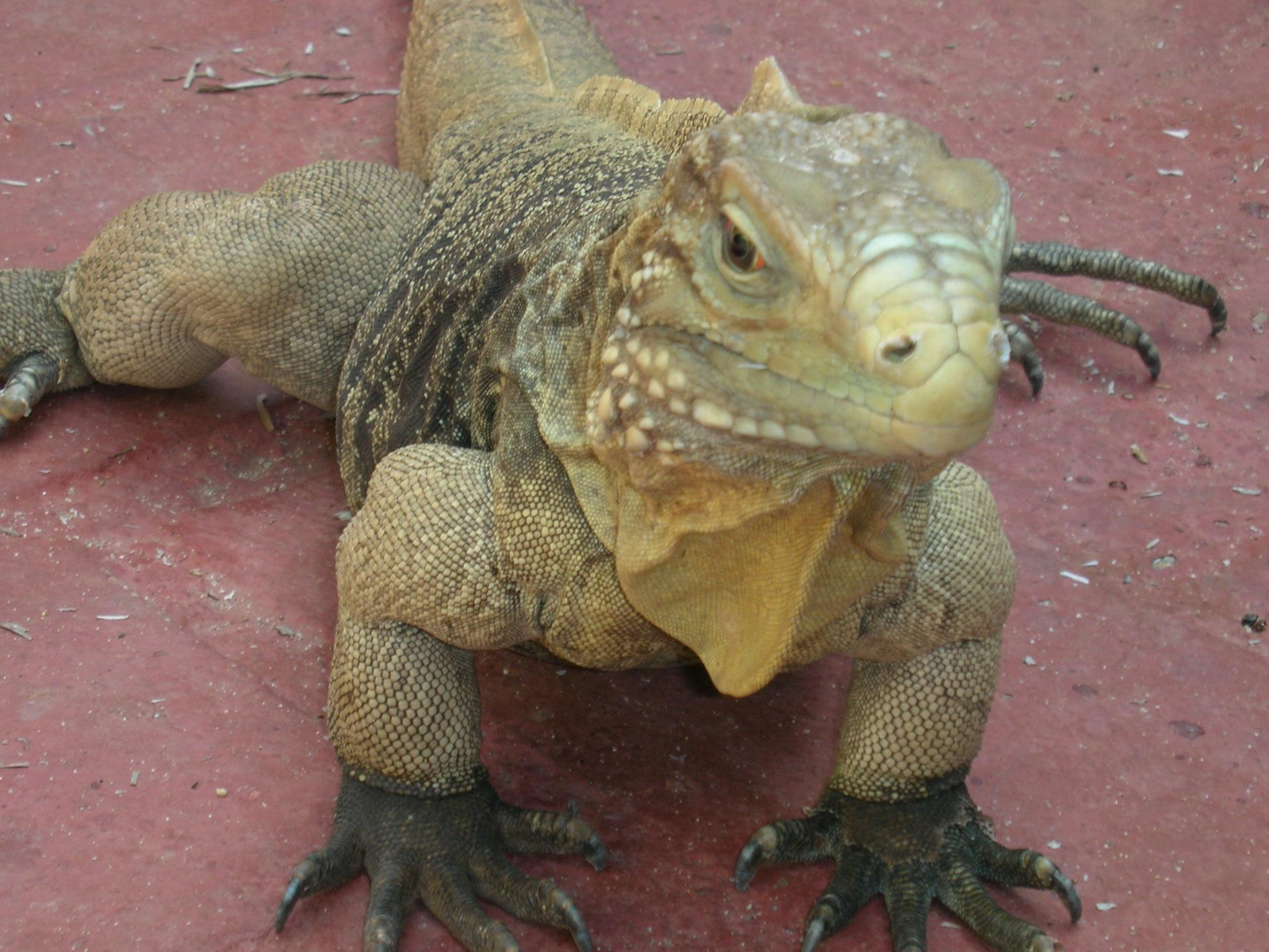 A Cuban rock Iguana at a resort in Cuba